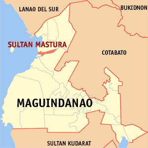 Map of the Maguindanao showing the location of Sultan Mastura